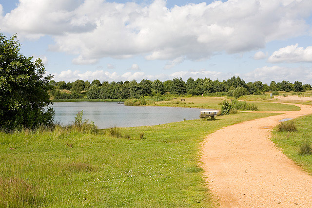 This is one of three lakes close together. Fishing is available in the other two.